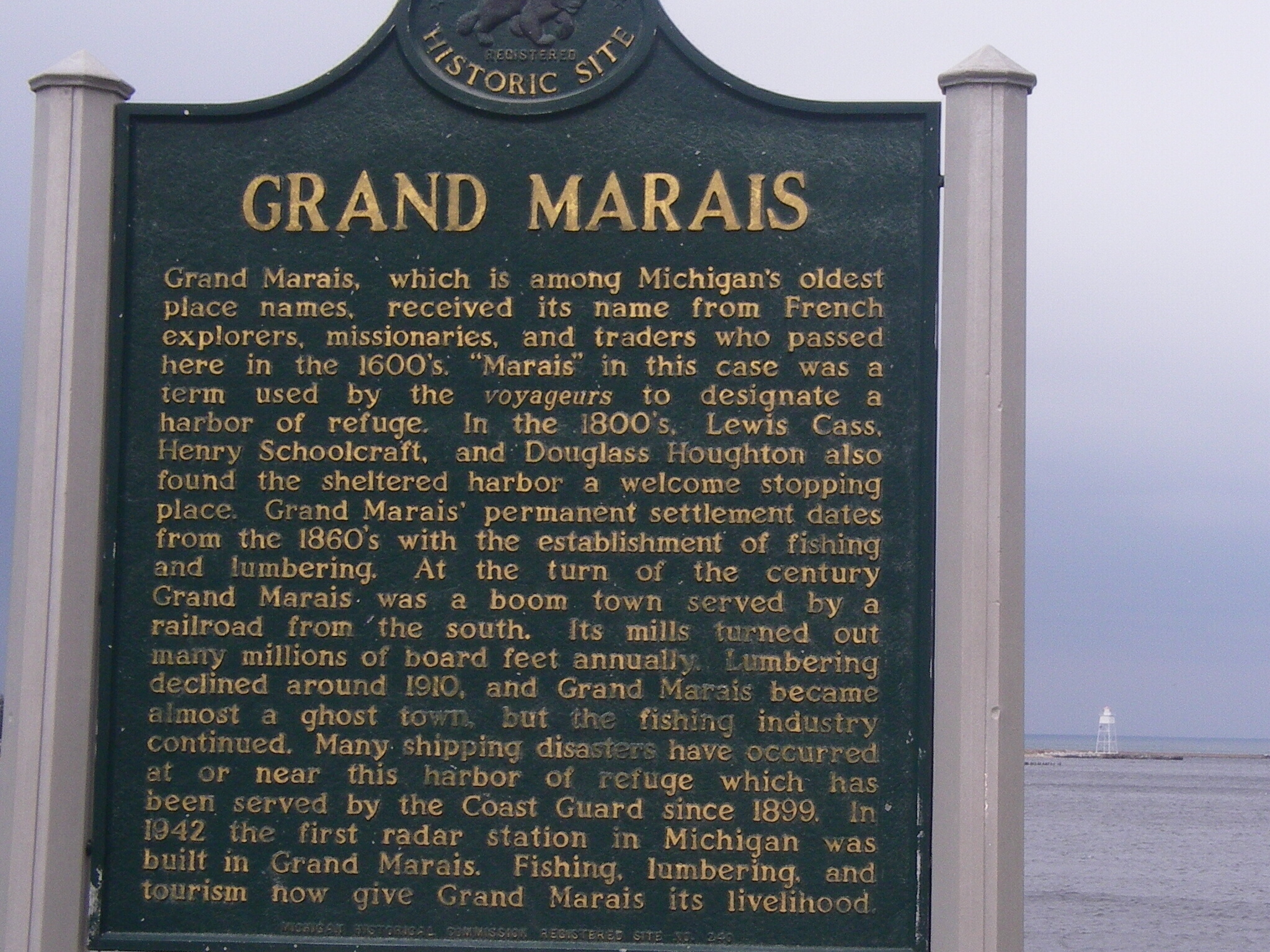 Grand Marais, Michigan state historic marker